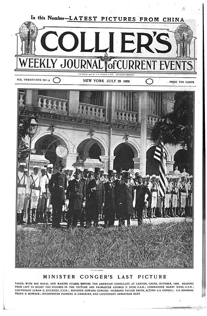 American consulate at Canton, China October 1899